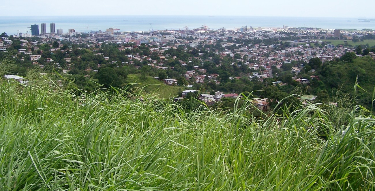 Port of Spain. Overview of Port of Spain, Trinidad, Port of Spain.